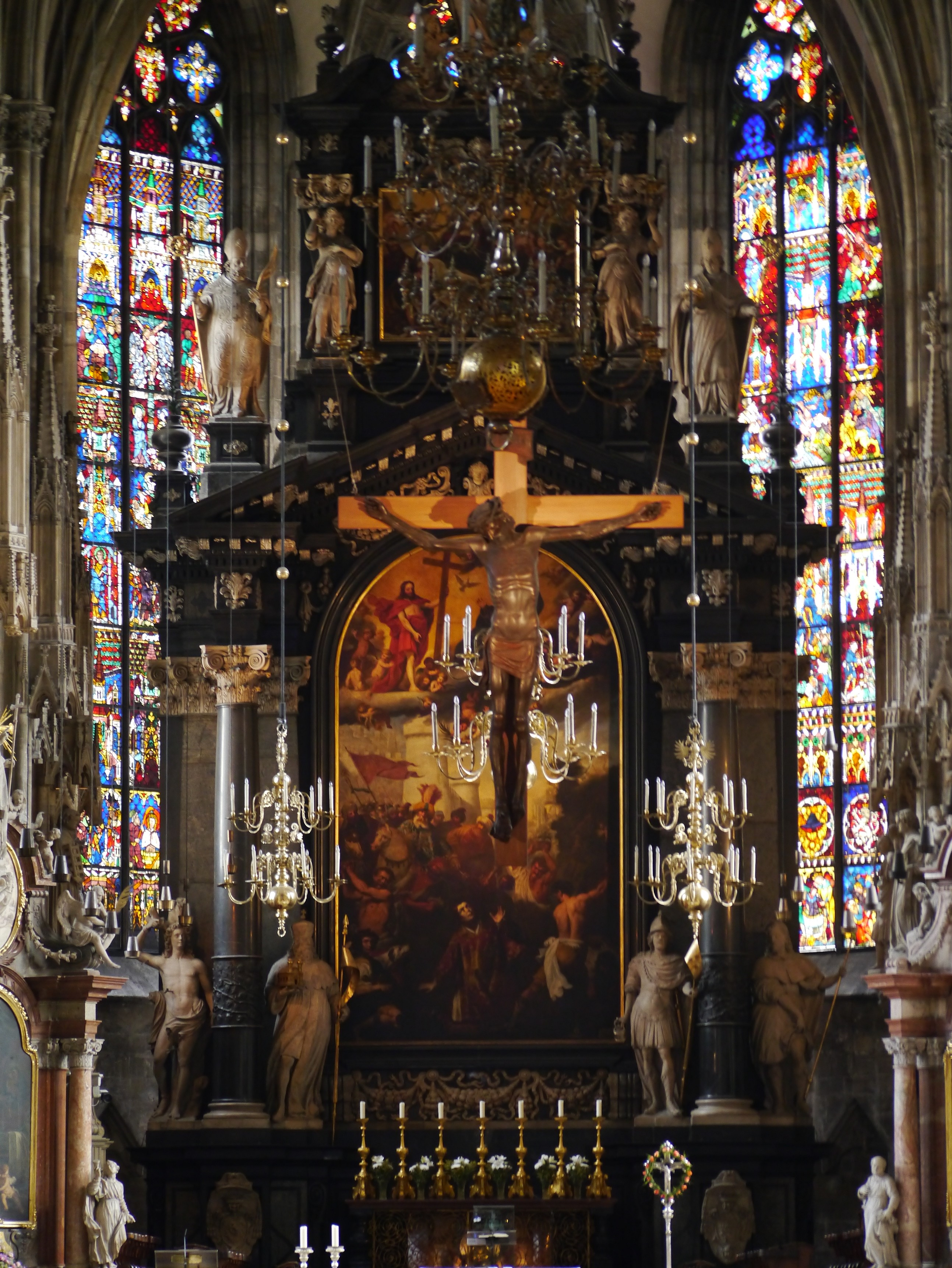 High Altar of the Cathedral St. Stephen, Vienna